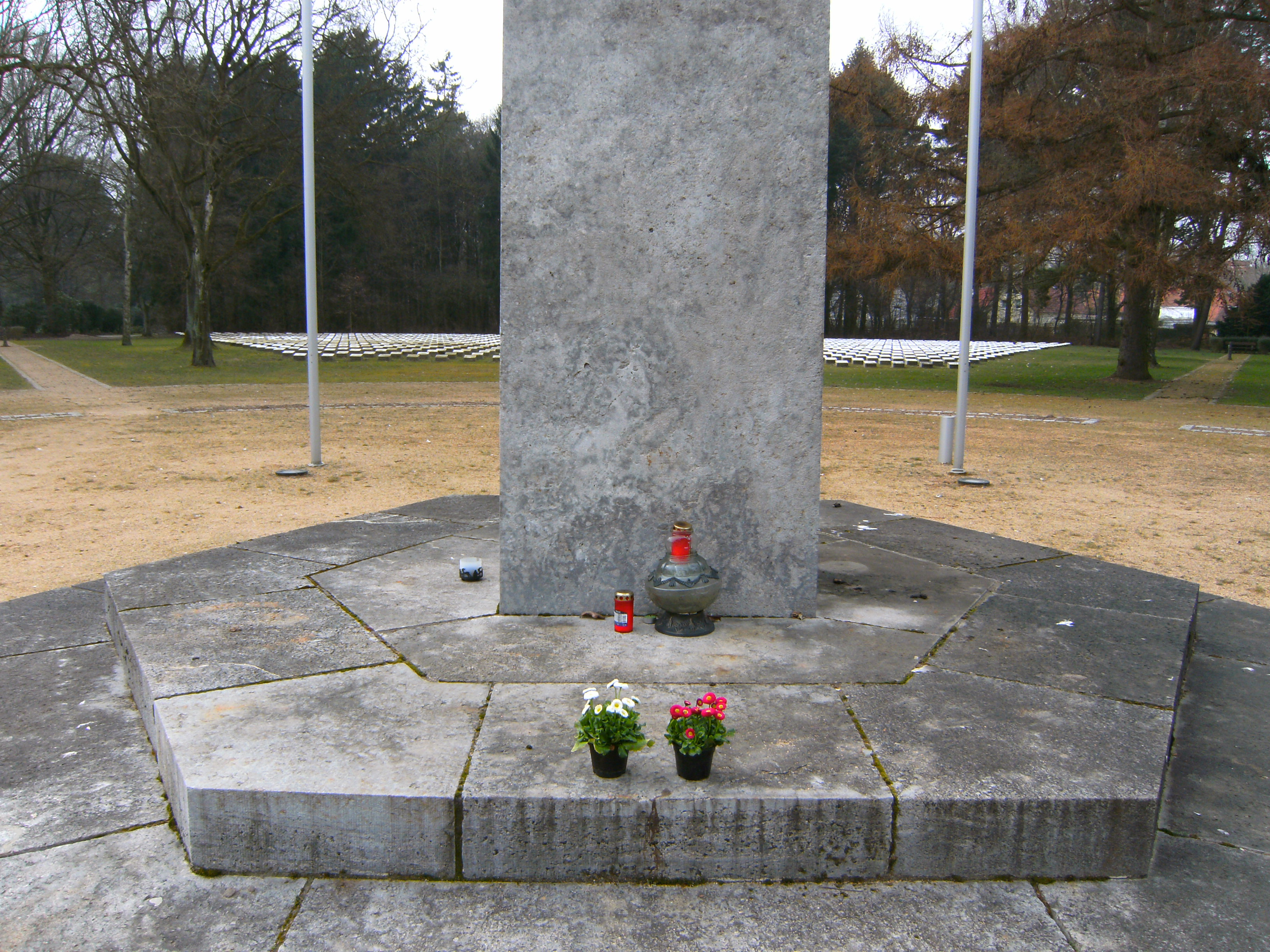 Steps to the high cross in the Italian war graves cemetery Hamburg-Öjendorf. Flowers and candels to reminisce.